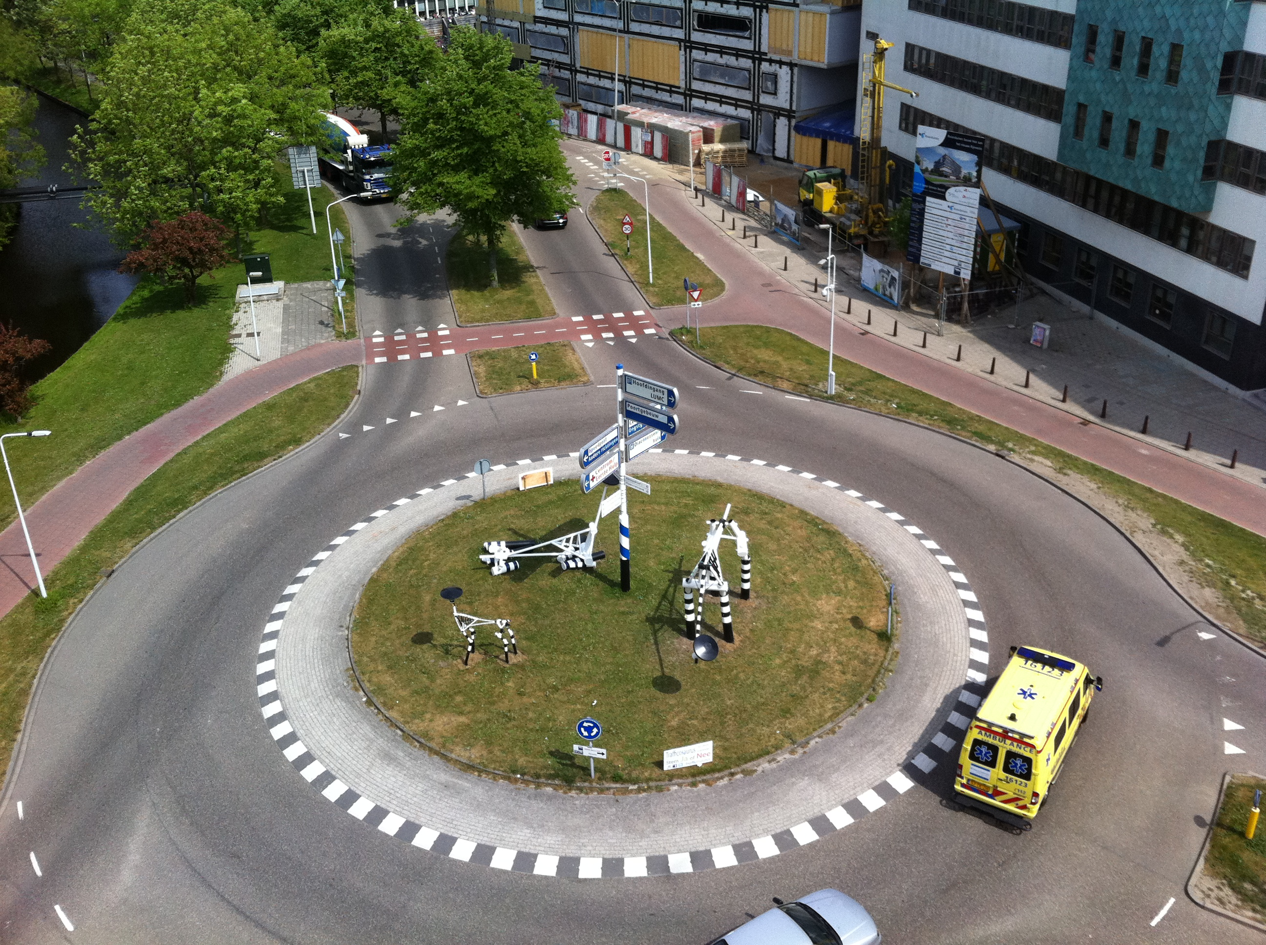 The sculpture Trafficosaurus luminoso on the LUMC-roundabout (Leiden, Netherlands), as seen from the top floor of the parking lot.